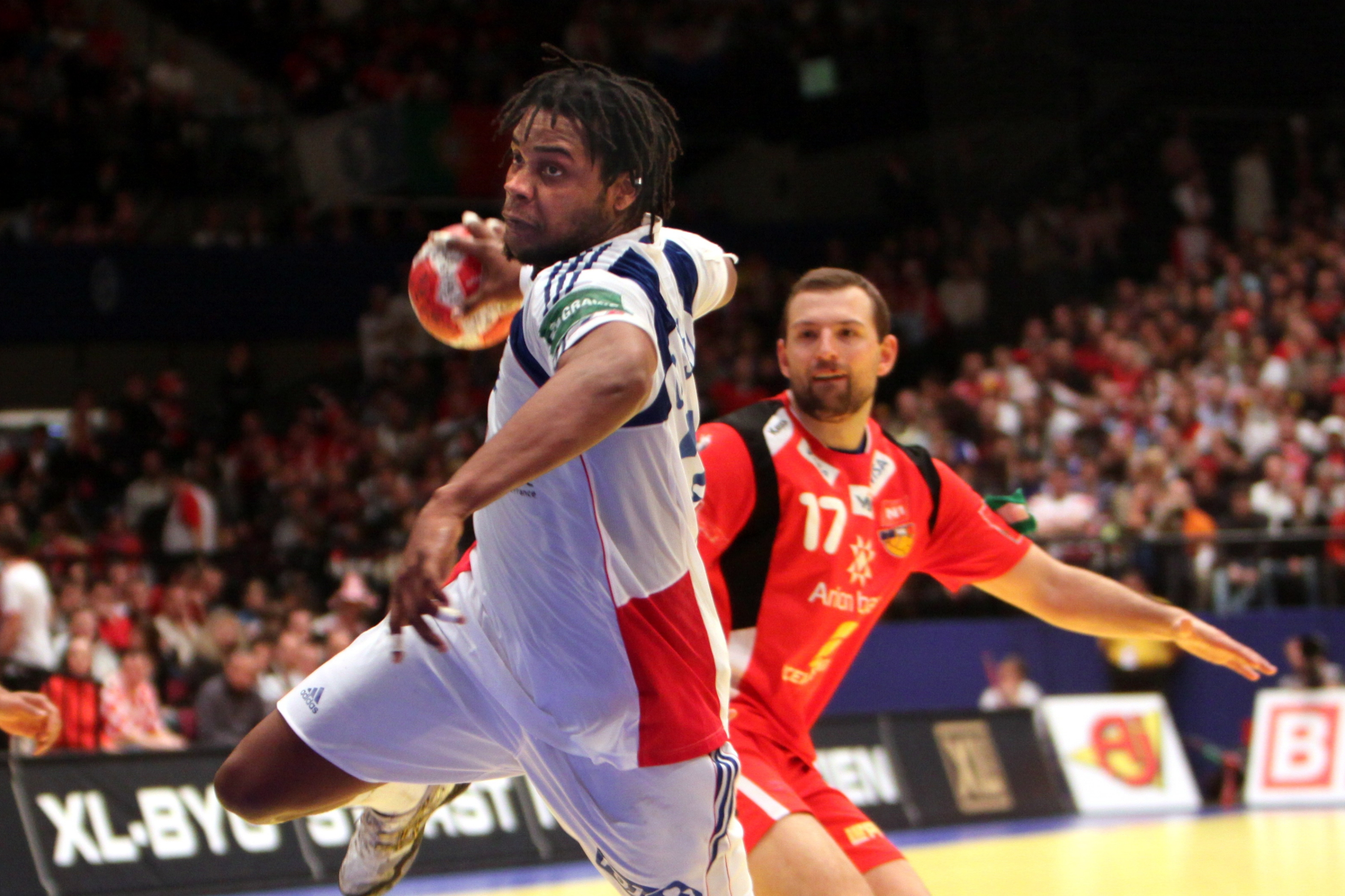 2010 European Men's Handball Championship Semifinal #1: Iceland vs France 28:36 — Cédric Sorhaindo (France national handball team) sets to the throw. Sverre Andreas Jakobsson (Iceland national handball team) is too late.